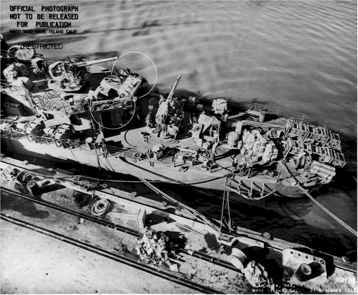 Stern of at Mare Island on 21 Nov 1943